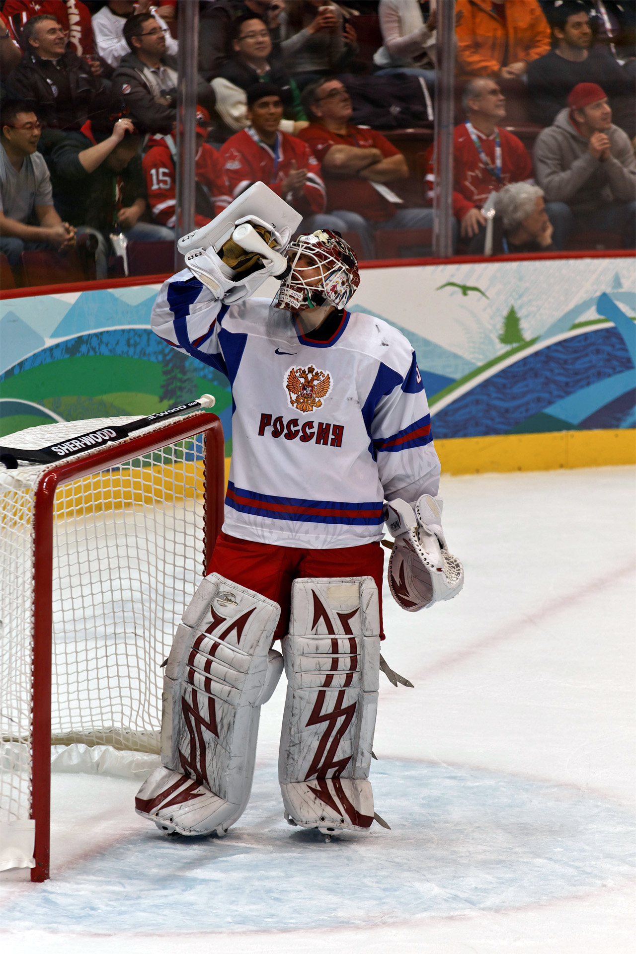 Russia goaltender Ilya Bryzgalov takes a break during a game against Slovakia during the 2010 Winter Olympics